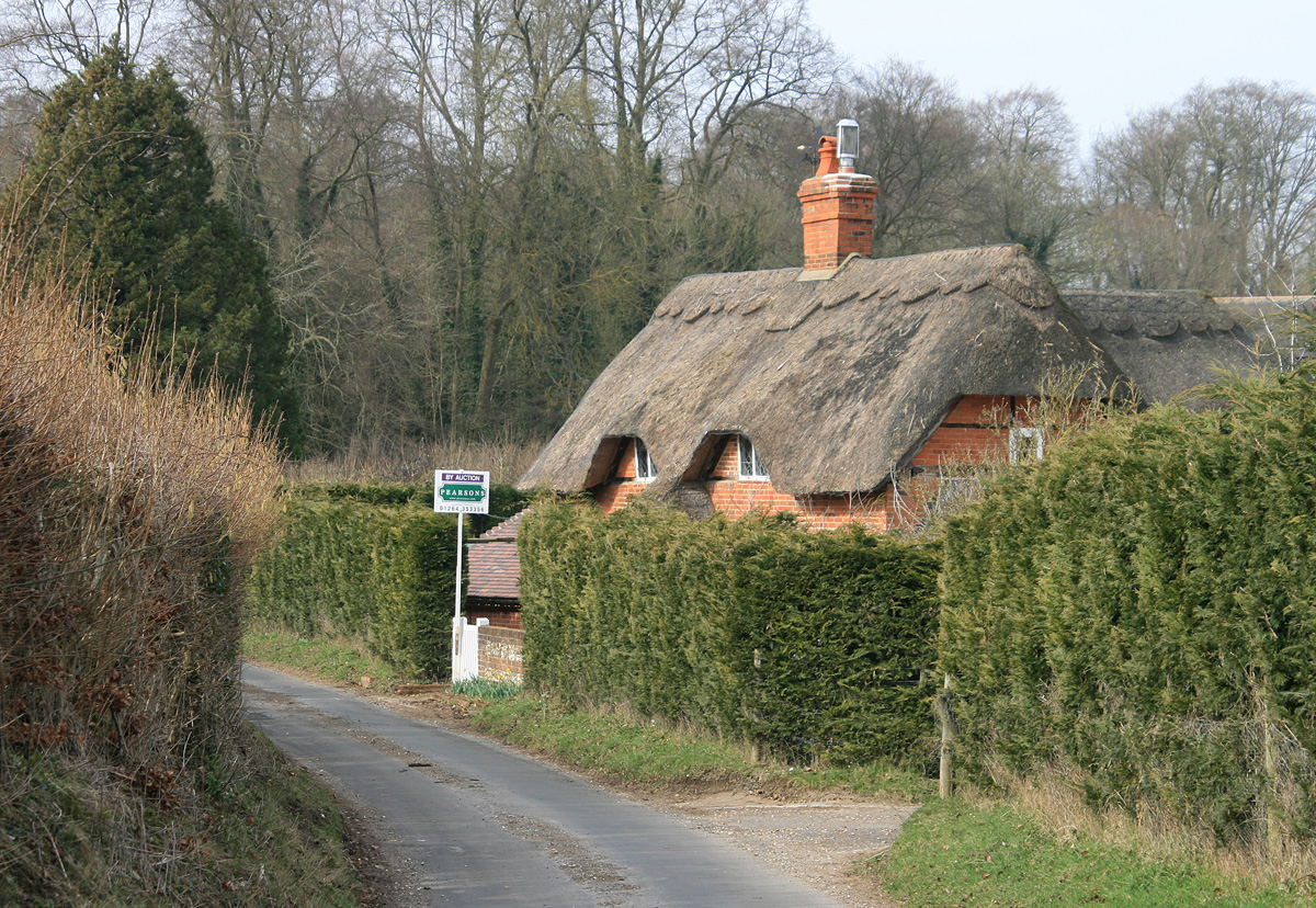 Rose Cottage, Tunworth Before the Herriard Estate sold off this cottage in the early 1990s, sanitation went no further than an earth closet. Since then, facilities have greatly improved. For many years, the building comprised a pair of one-up, one-down cottages, as can be seen in this photograph, dating perhaps from the late 19th century: File:Rose Cottage, Tunworth, late 19th century.jpg